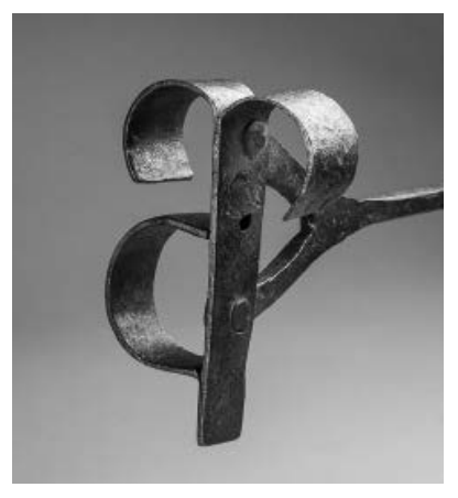 Тавро карачаевского рода Алиевых